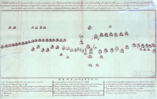 Engraving of British and Franco-Spanish Fleets engaging combat in the Battle of Toulon (1744). Source: National Maritime Museum, UK.